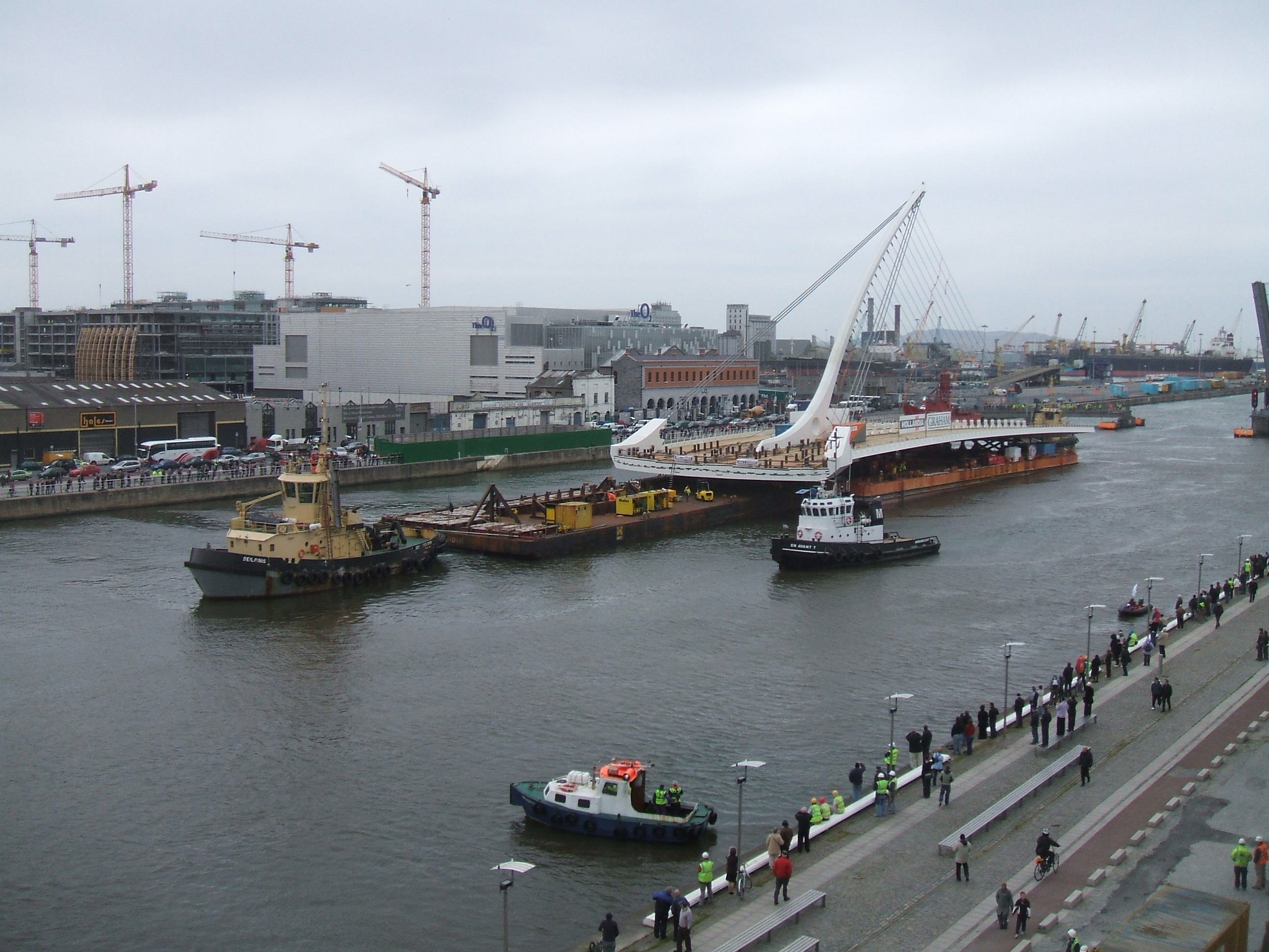 The Samuel Beckett Bridge being towed up the river Liffey in Dublin on the way to its installation.